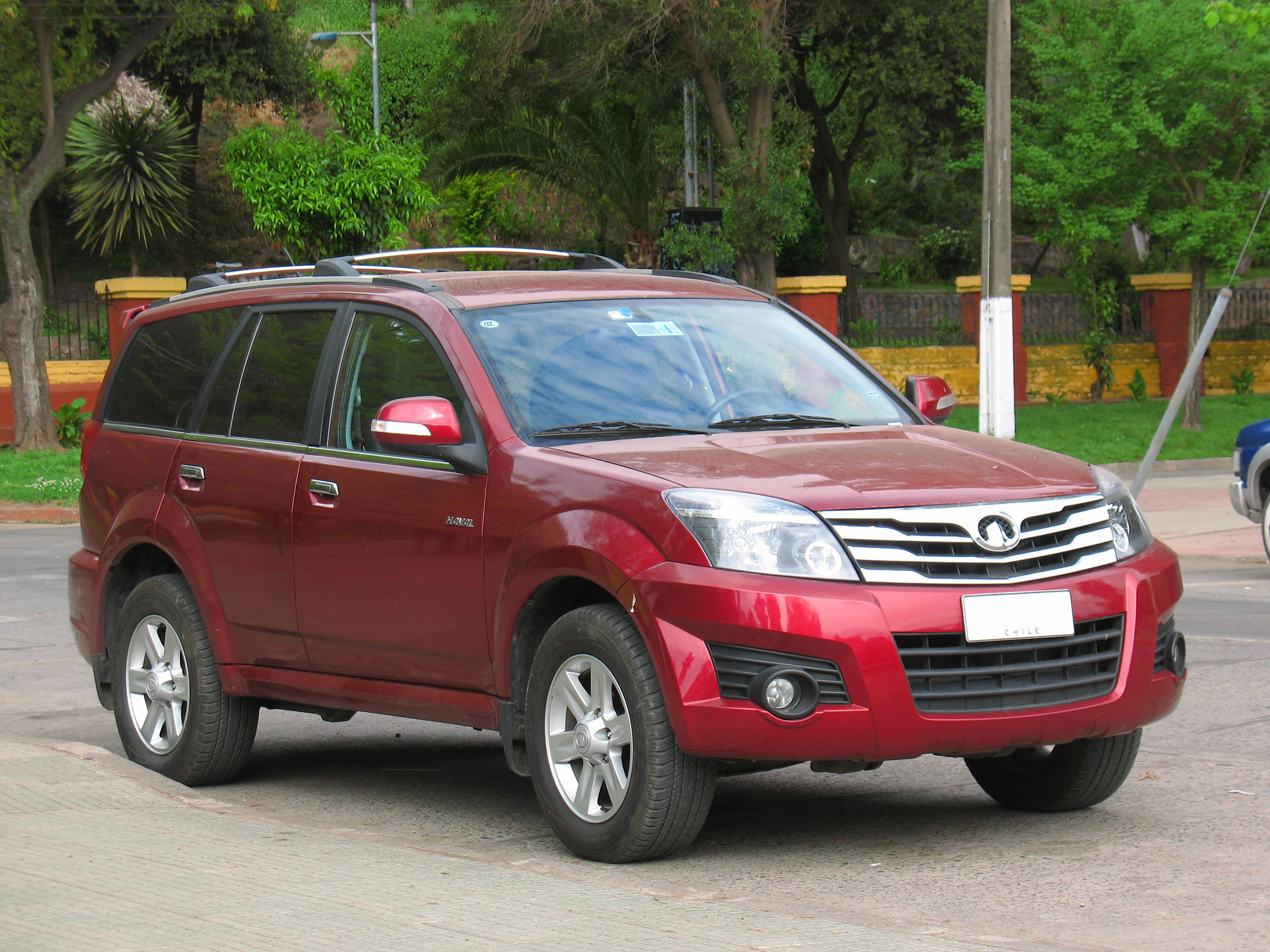 Great Wall Haval H3 2.0 LE 2012